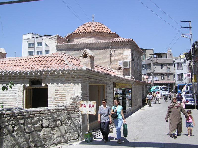 Adana Yag Mosque